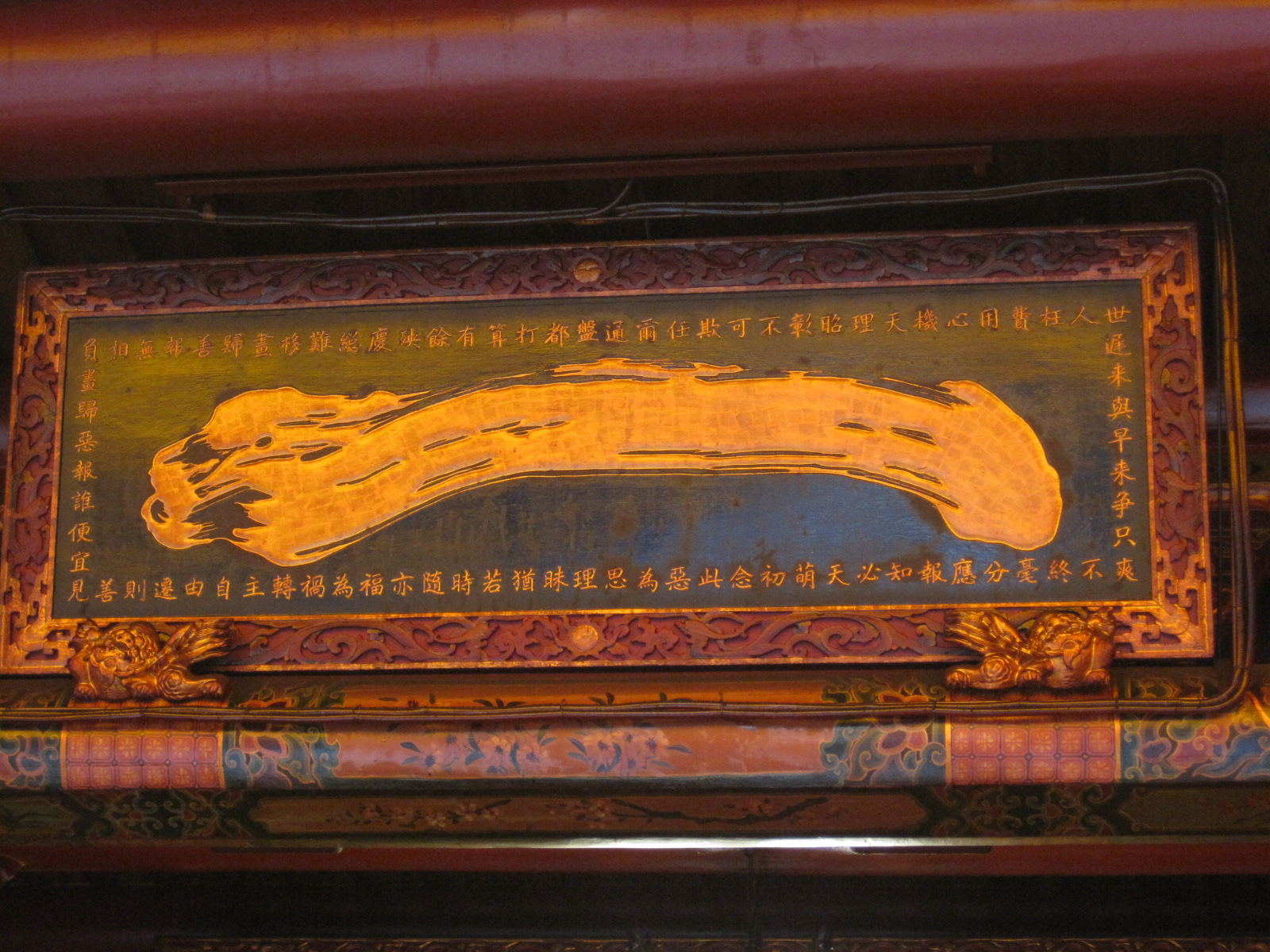 A historical plaque in Tainan Temple of Heaven, Taiwan. 中文（台灣）: 臺南天壇的「一」字匾